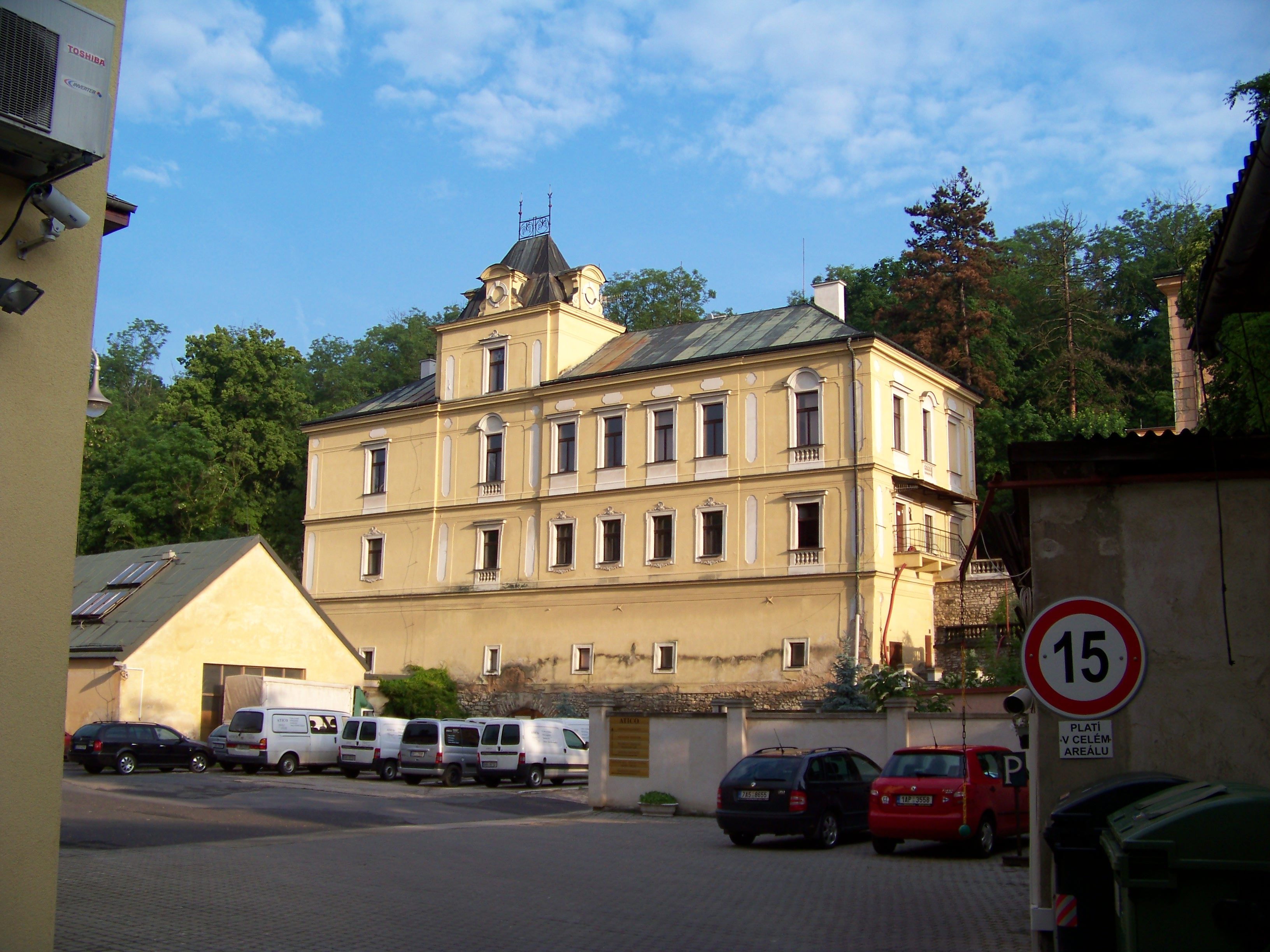 Hlubočepy, Prague, the Czech Republic. Hlubočepská 19/10, Patricie.